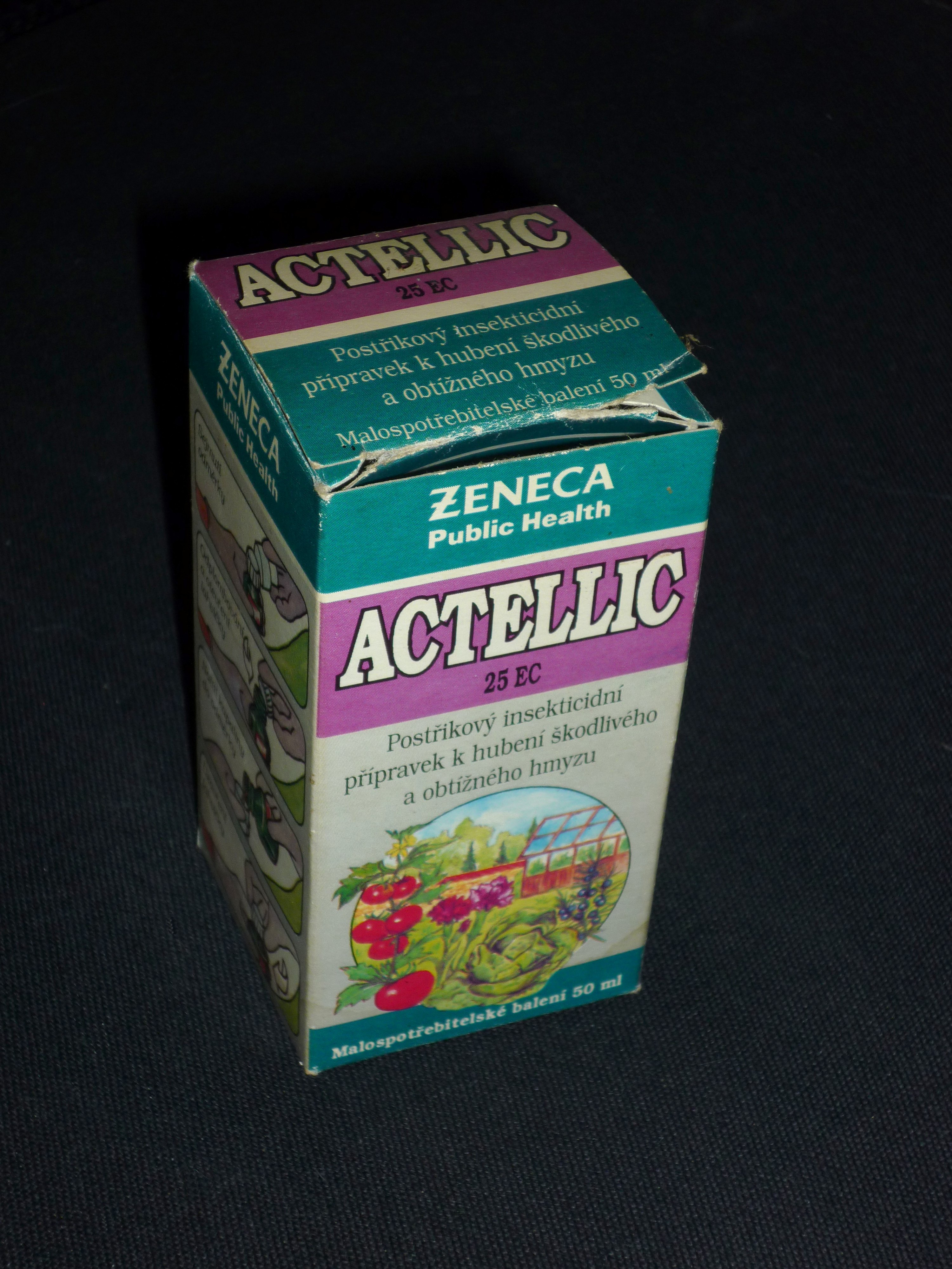 Actellic 25 EC - insecticide with pirimiphos-methyl organophosphate (no longer in production)